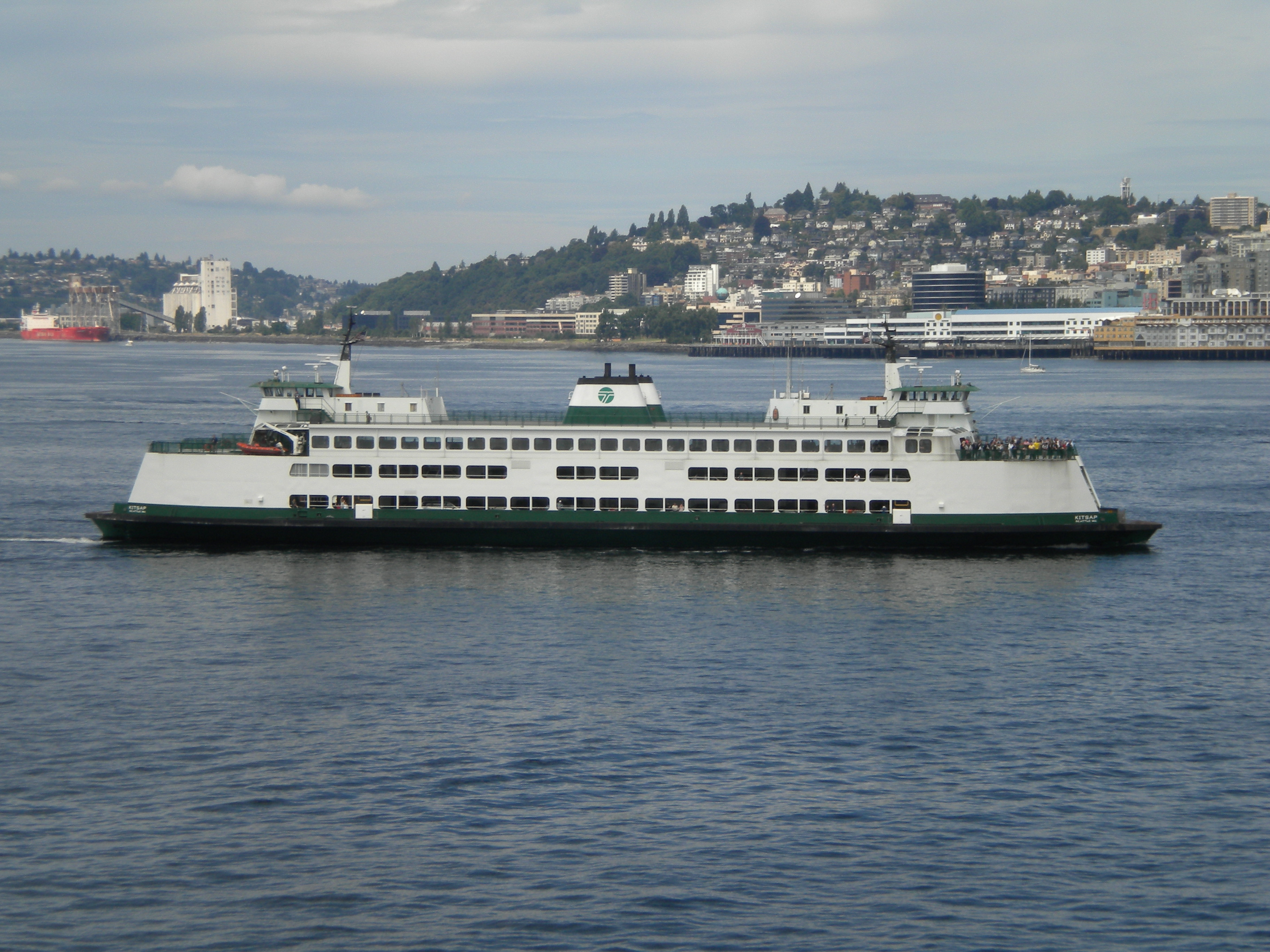 The MV Kitsap in Elliott Bay, about to dock at Colman Dock on the Seattle waterfront. Photo taken from the deck of the USS Bonhomme Richard (LHD-6).